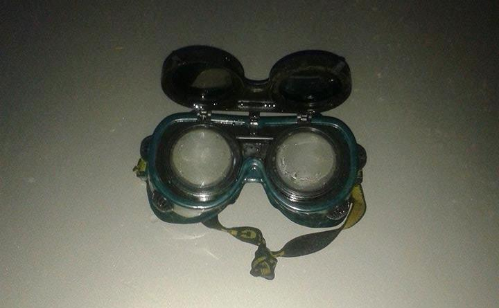 Syze mbojtese